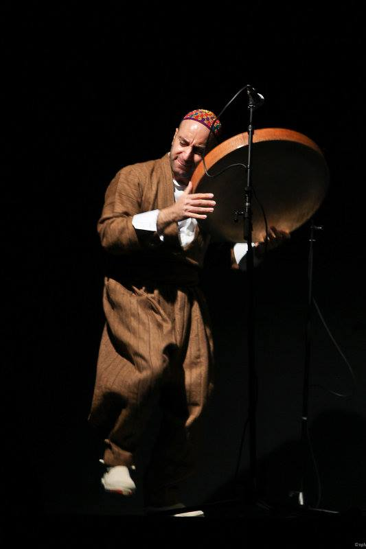 Hussein Zahawy is playing daf.